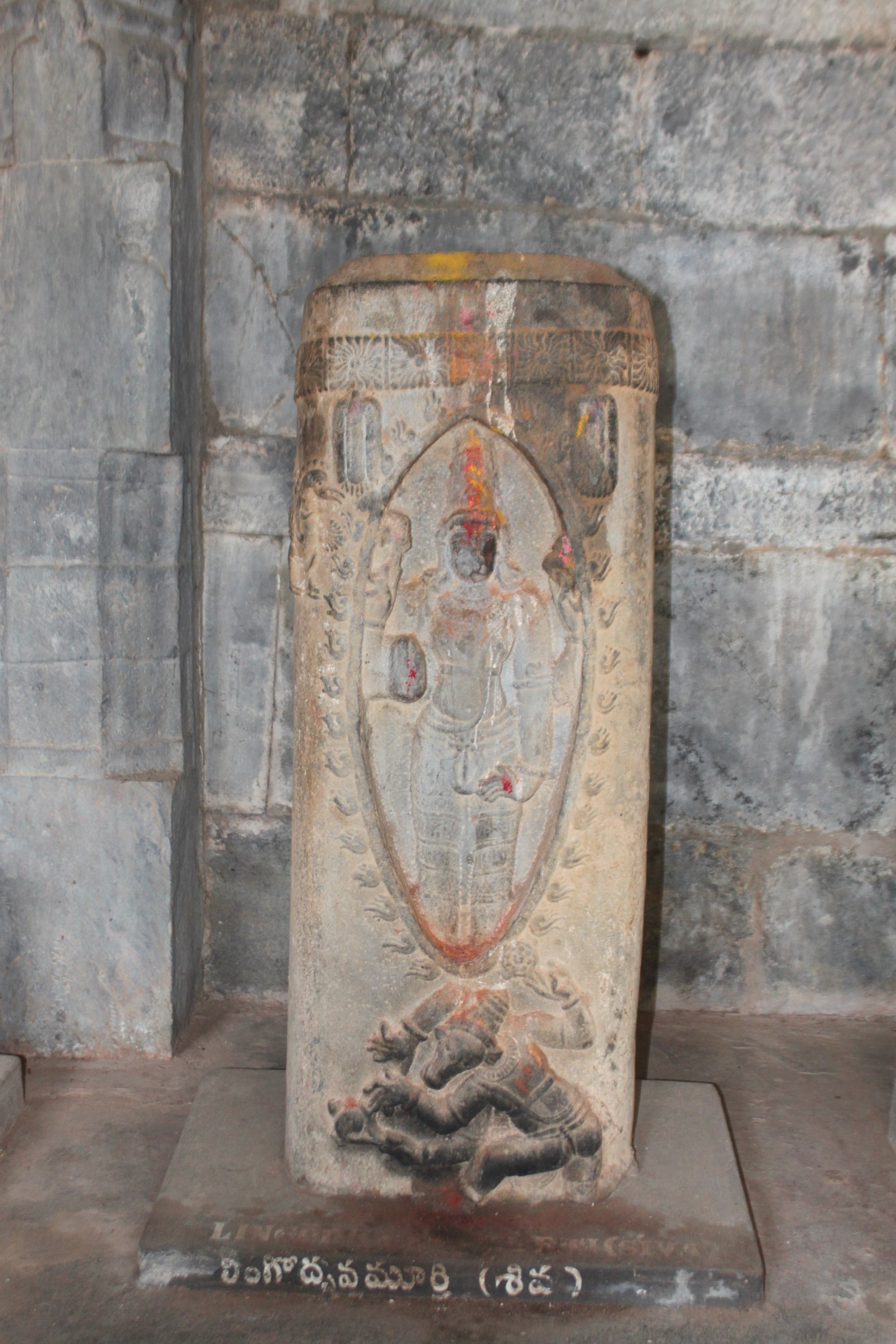 Sri Lingodbhava Murthy